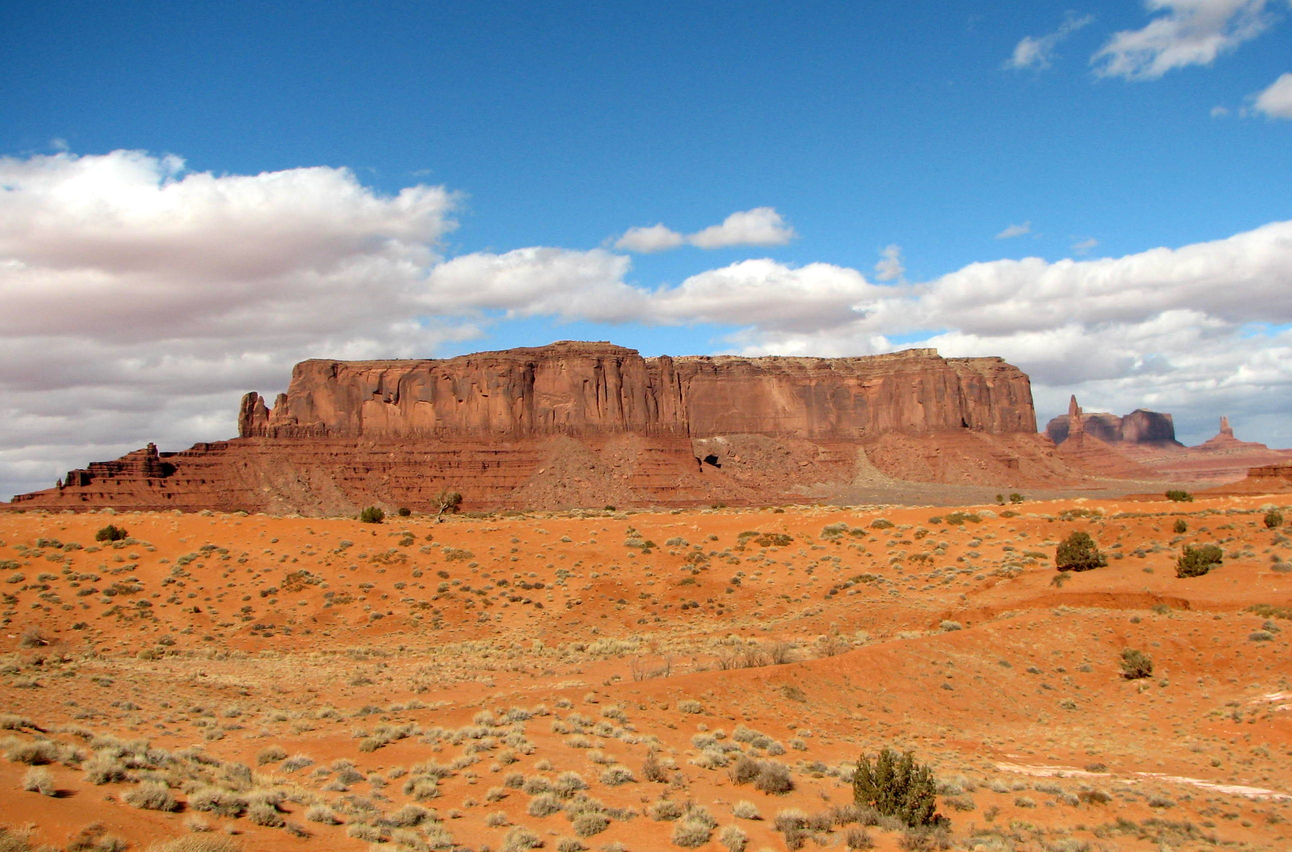 Sentinel Mesa in Monument Valley, Arizona, USA. The 5 expressed geologic units: 5--(resistant caprock)-Shinarump Conglomerate4--(horizontal, layered)-Moenkopi Formation3--(cliffs)-De Chelly Sandstone-(also in Canyon De Chelly National Monument)2--(skirts)-Organ Rock Formation- (of Utah, & northern Arizona)1--(local regions of Mon. Vall.)-Cedar Mesa Sandstone